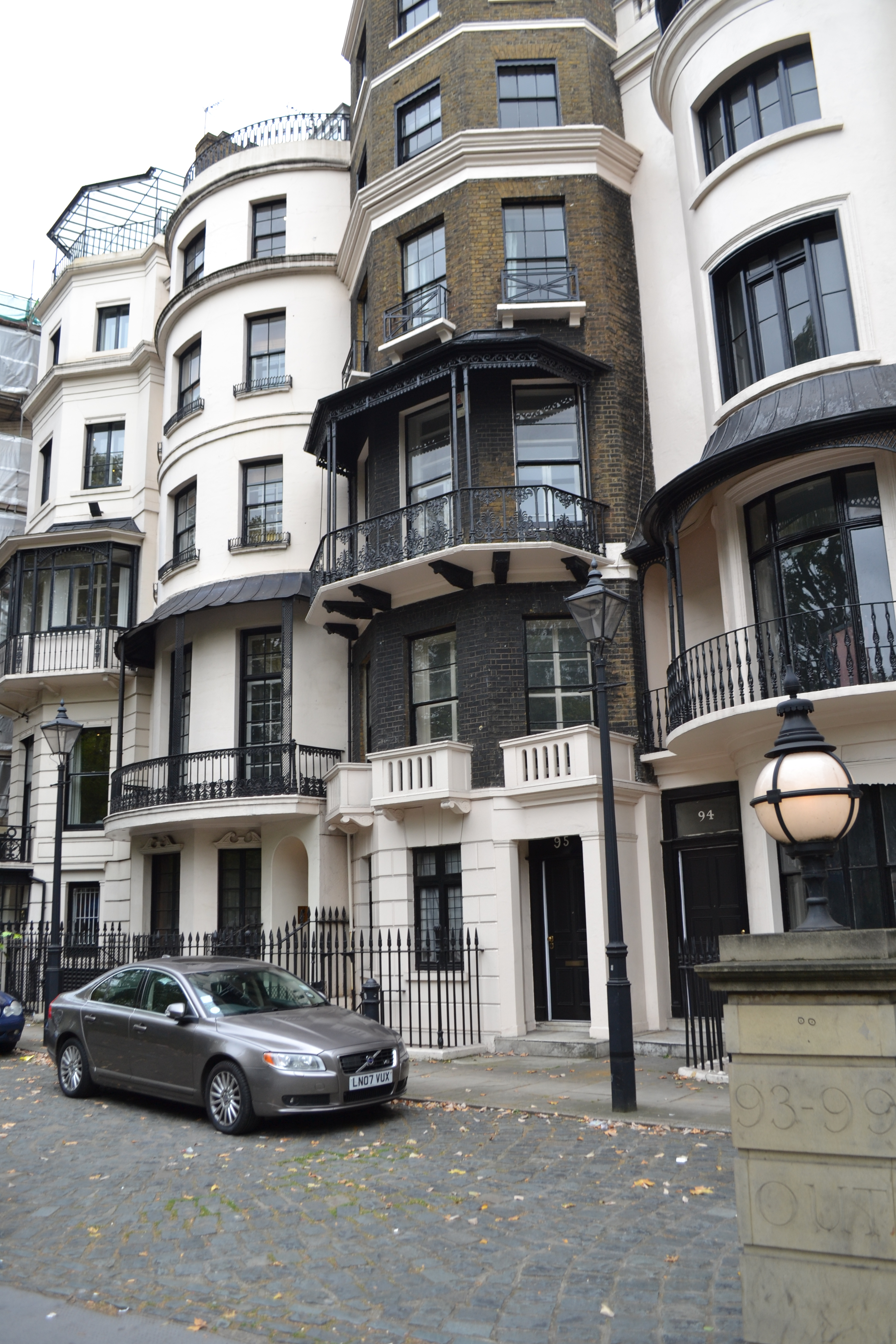 Buildings located on Park Lane (London), dating from the 1820s and witnesses to the architectural style of the avenue at the time.